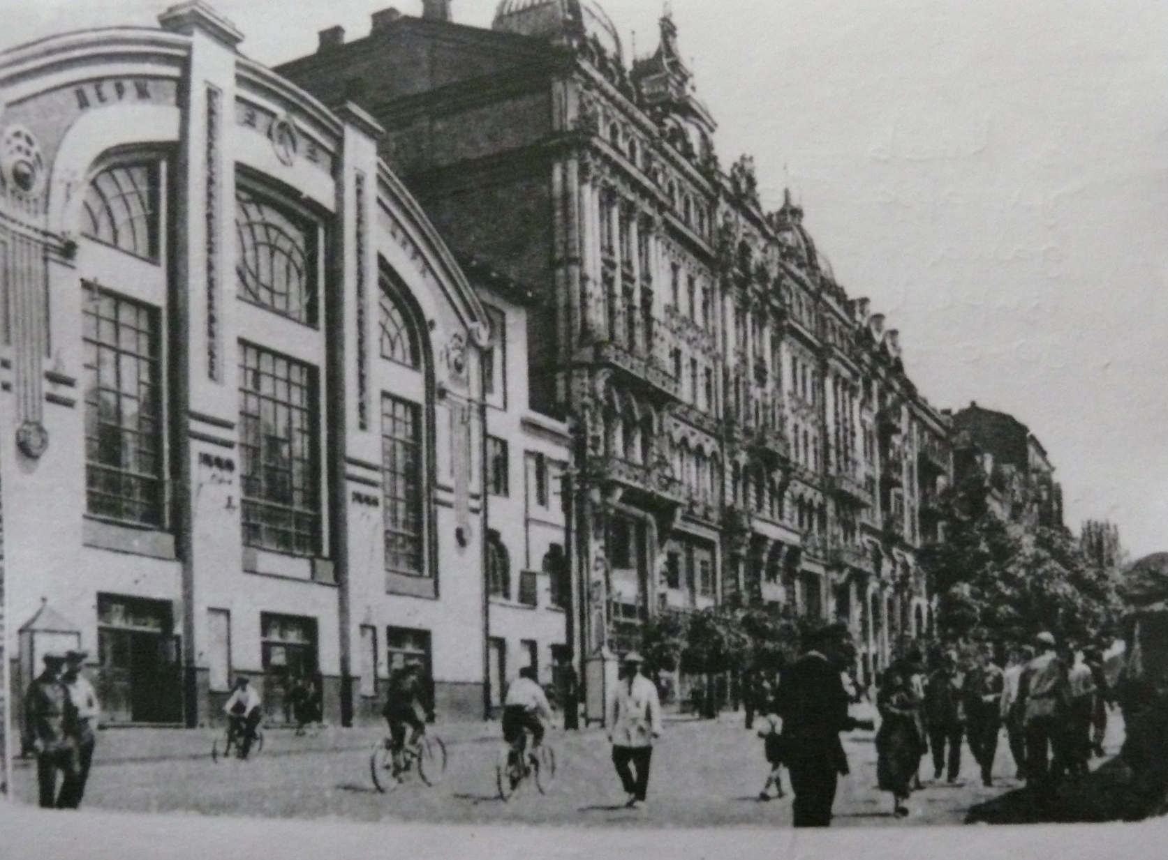 Krutikov circus and Ginsburg house, Kyiv.